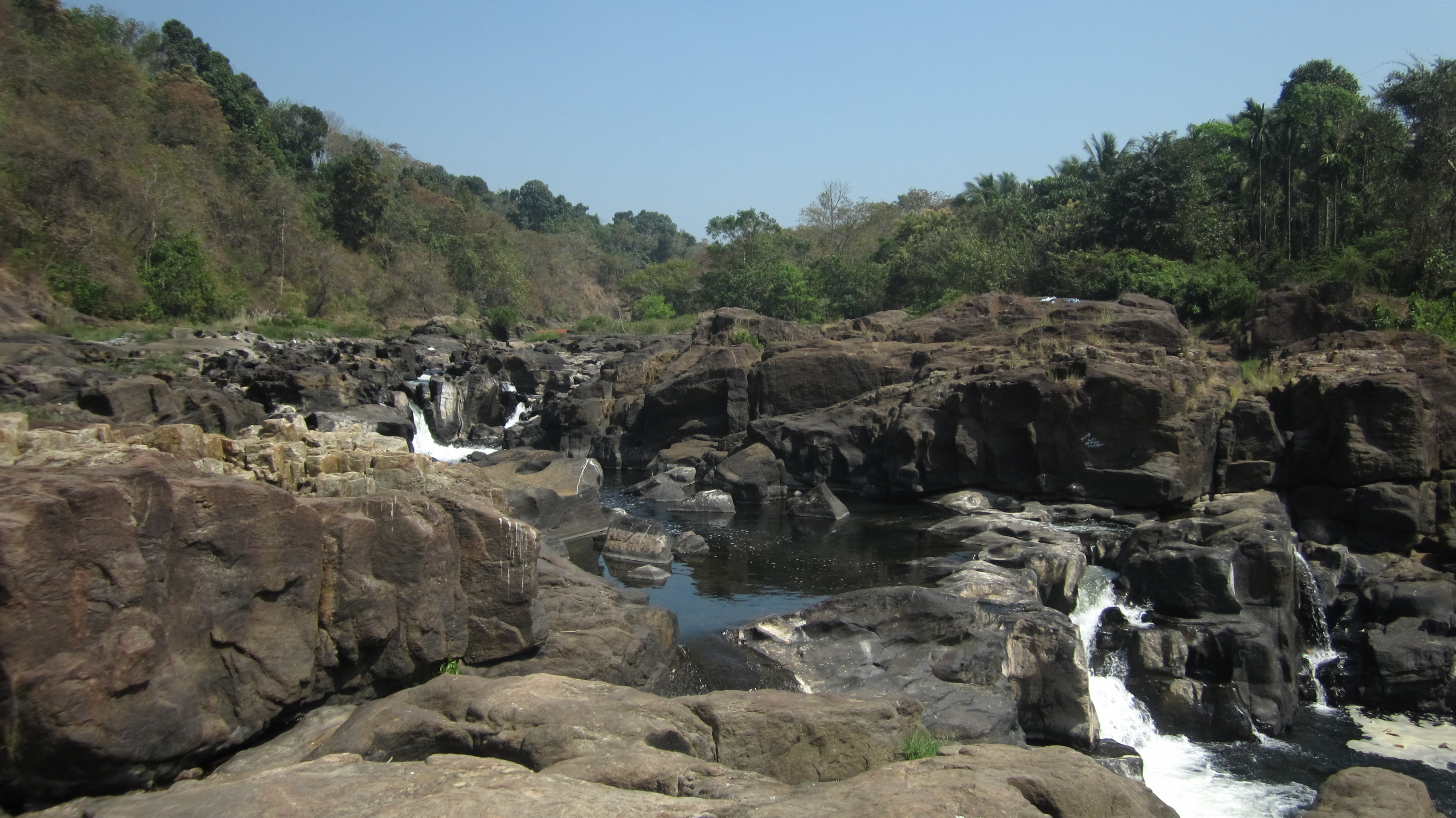 Perunthenaruvi Pathanamthitta